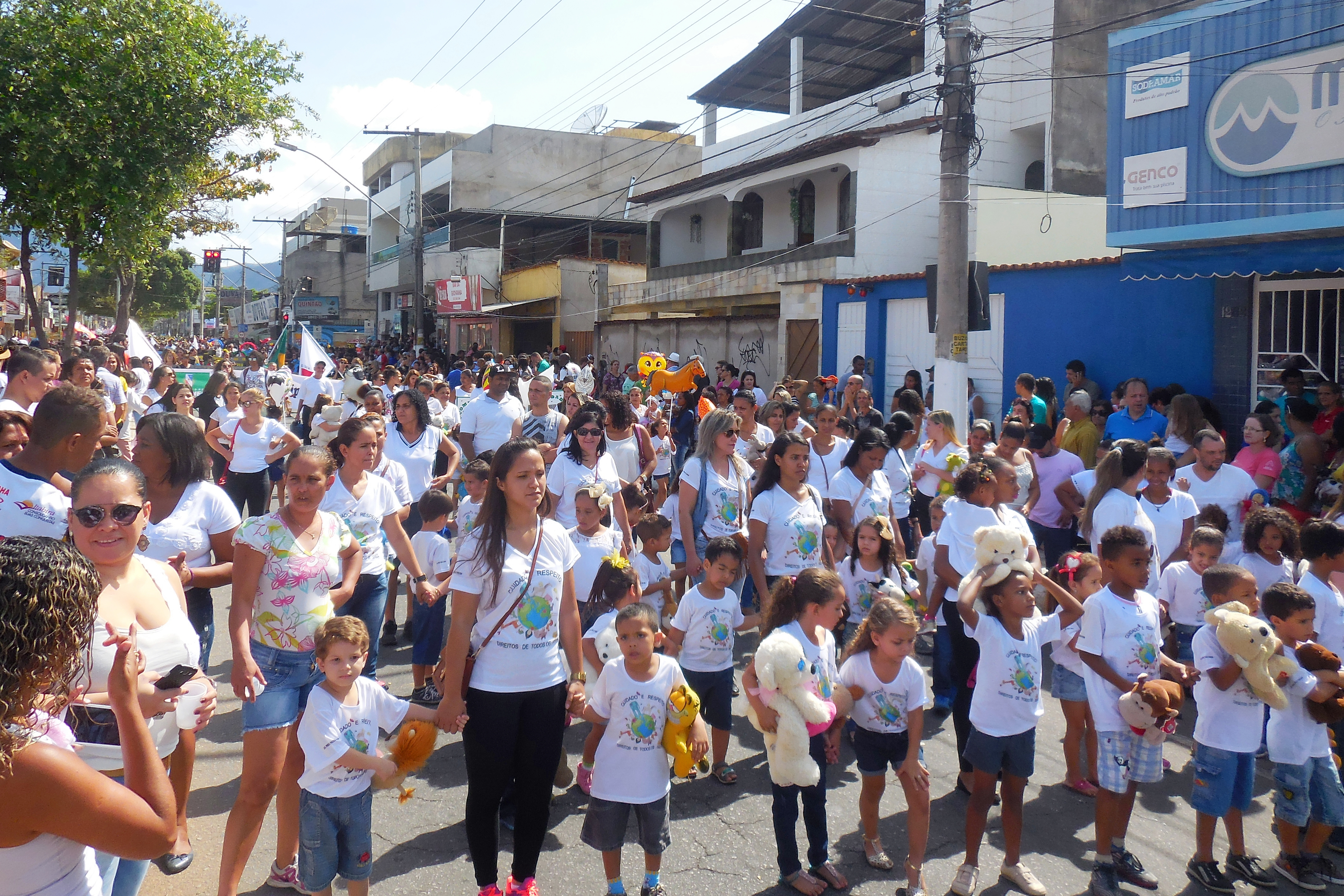 Students and teachers of public schools in the parade of the Brazil's Independence Day, in Coronel Fabriciano, Minas Gerais, Brazil.